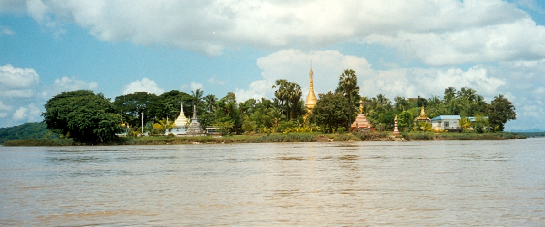 Shampoo Island near Moulmein, Burma.